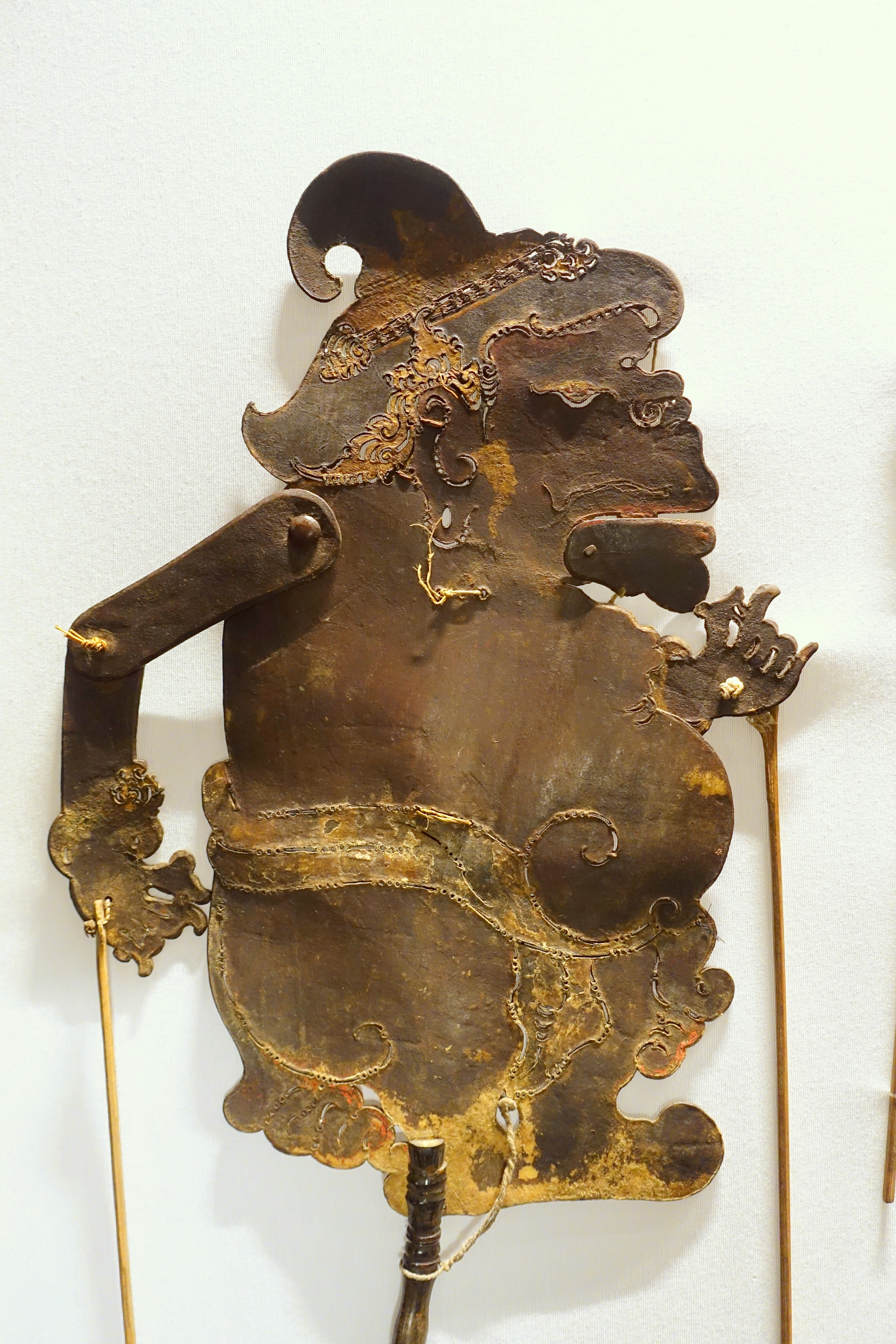 Exhibit in the Museu do Oriente - Lisbon, Portugal. This work is old enough so that it is in the public domain.